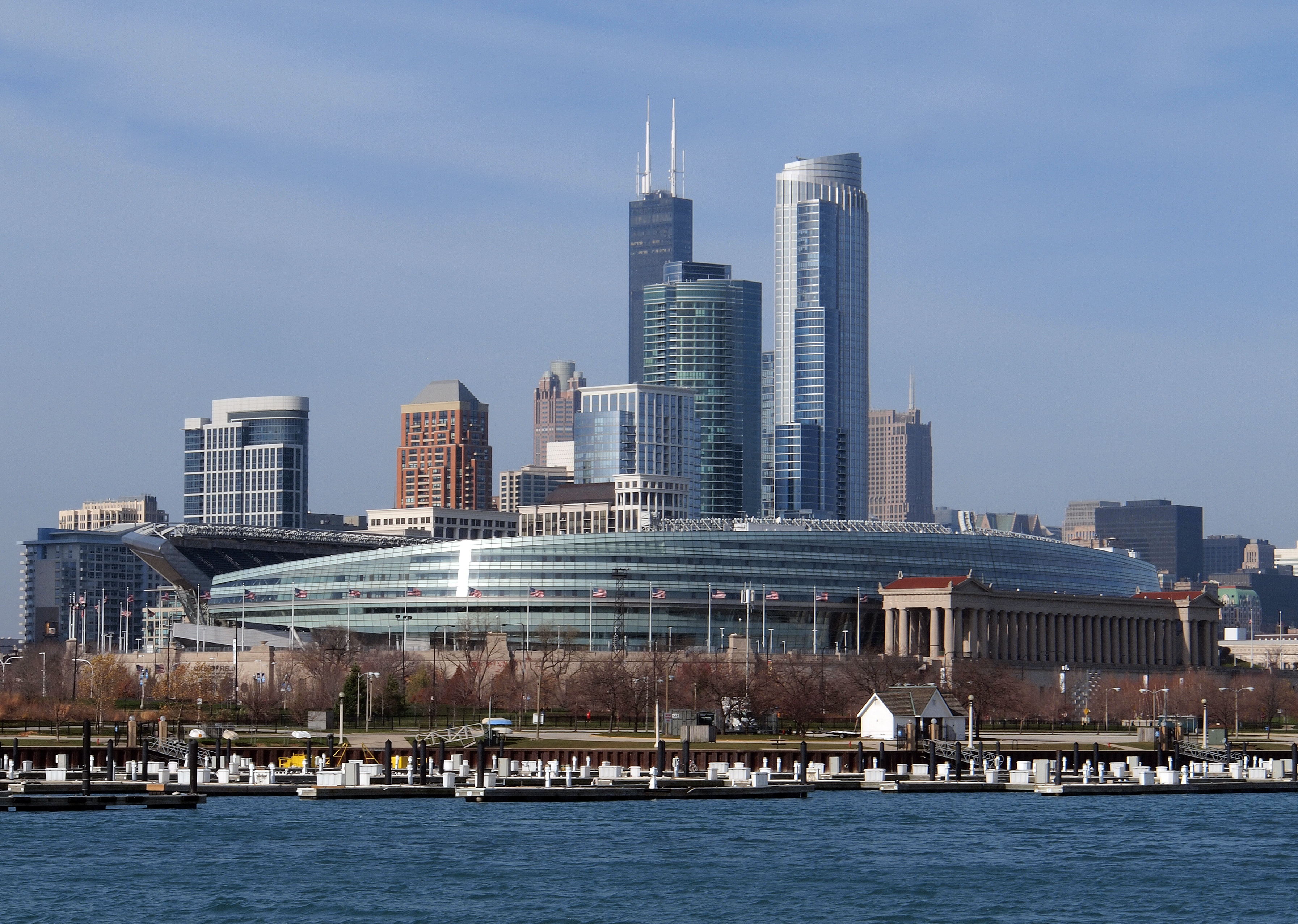 Chicago, U.S